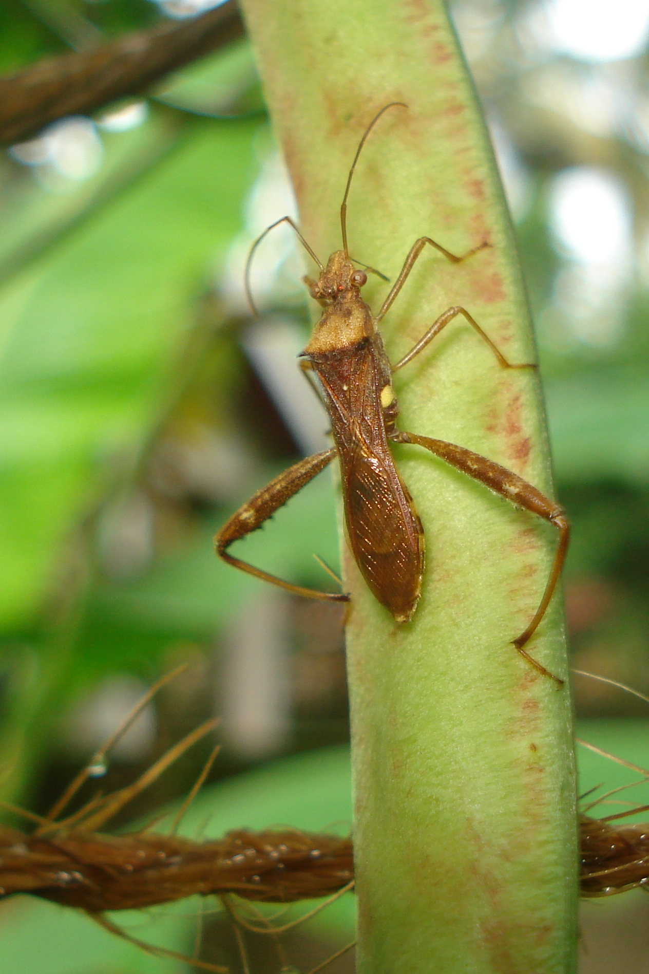 Insect attacking Yardlong Bean